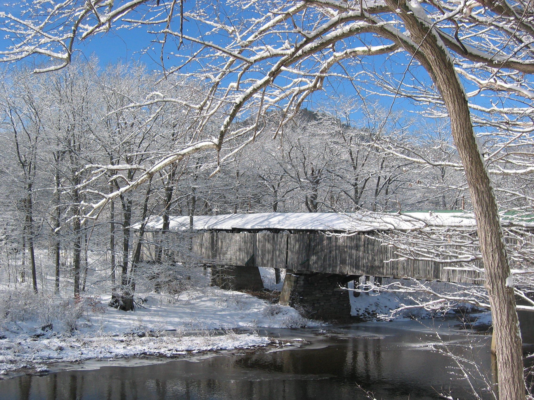 COVERED BRIDGE, VERMONT, RTE#30, JAN. '06 (BY FRED ABRAHAMS)